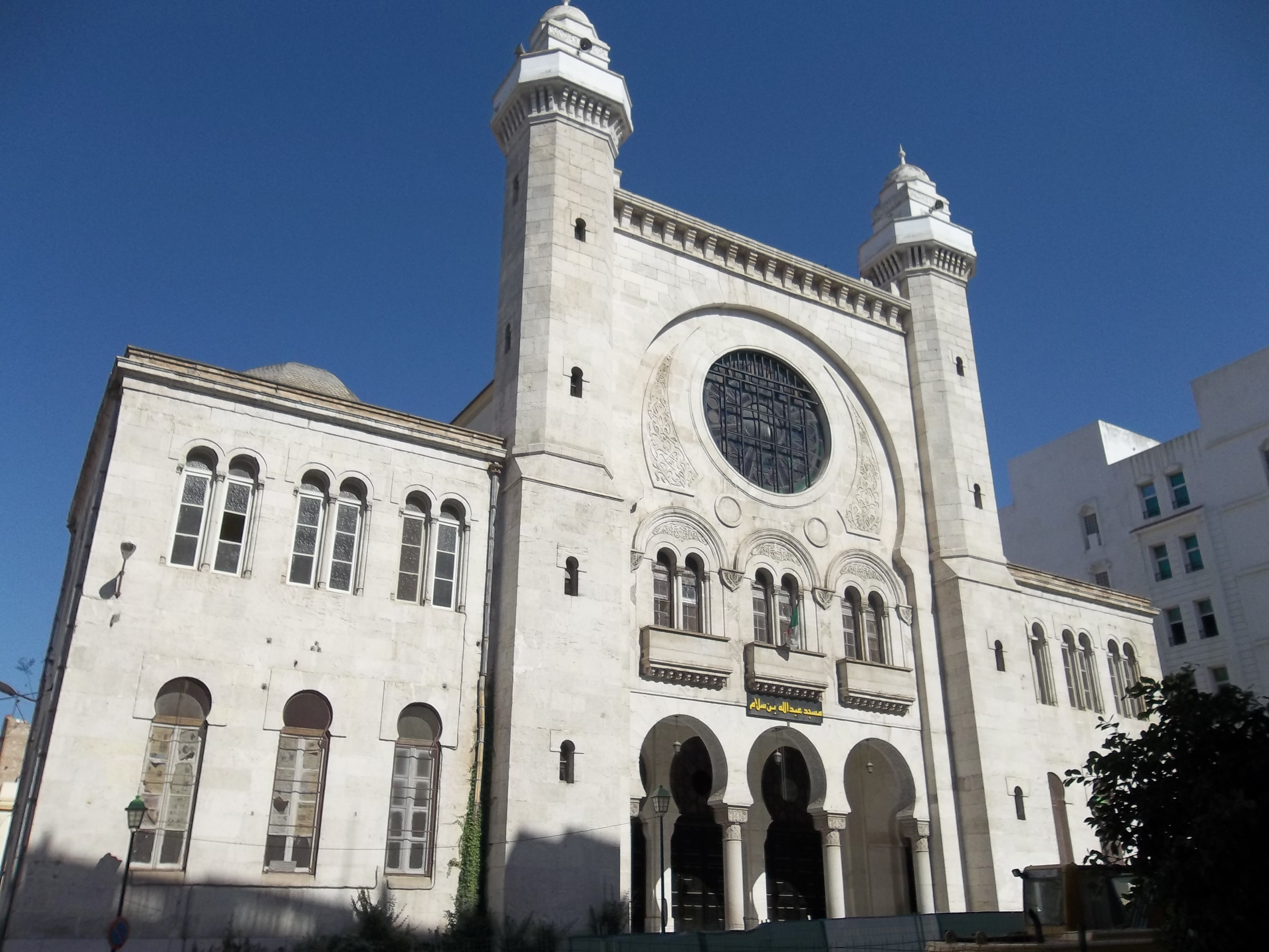 Abdallah Ibn Salam Mosque, previously known as Oran's Synagogue. Picture was taken in 2011, after the restoration of the building.